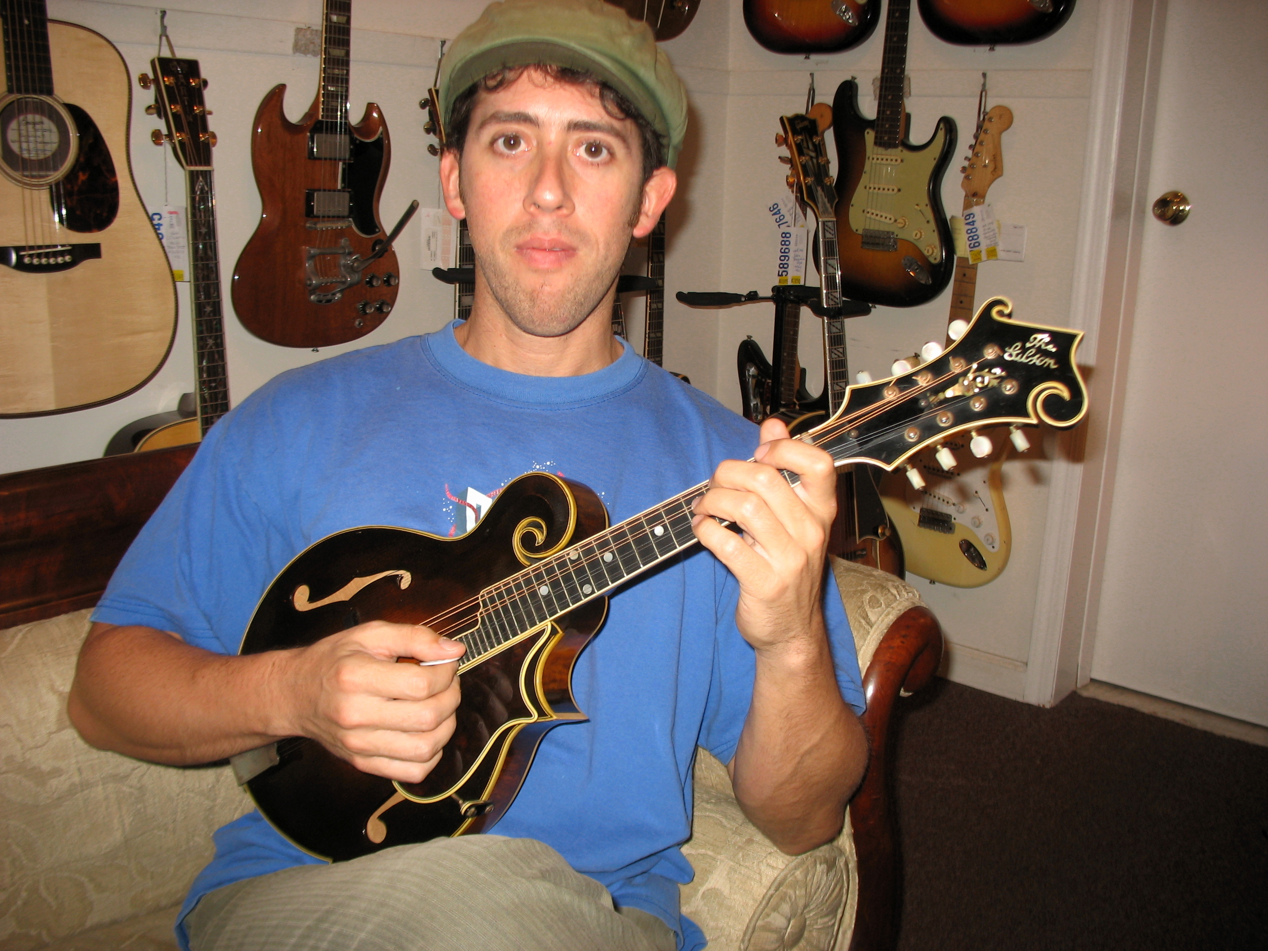 Joe Brent with a 1924 Lloyd Loar F-5 #75846, Virzi #10002